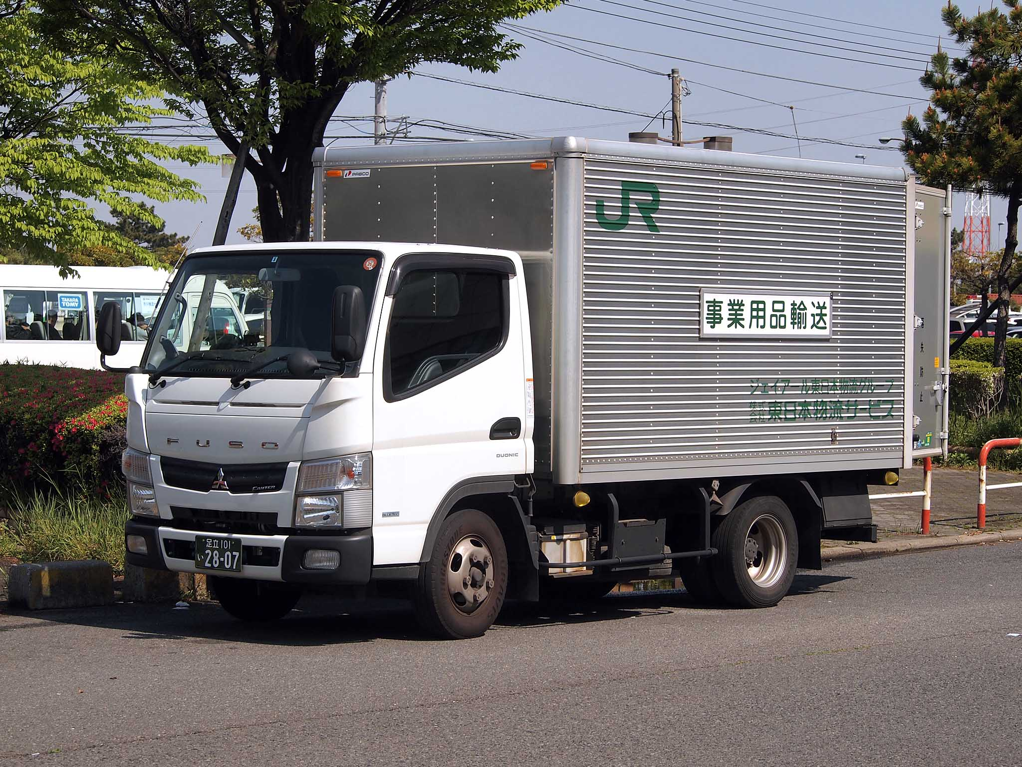 Fleet of JR East Logistics Co. for private messenger of JR East at Ichikawa-shiohama Station. License plate: TKA101 I2807